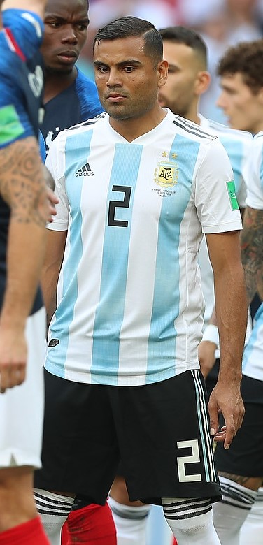 Gabriel Mercado